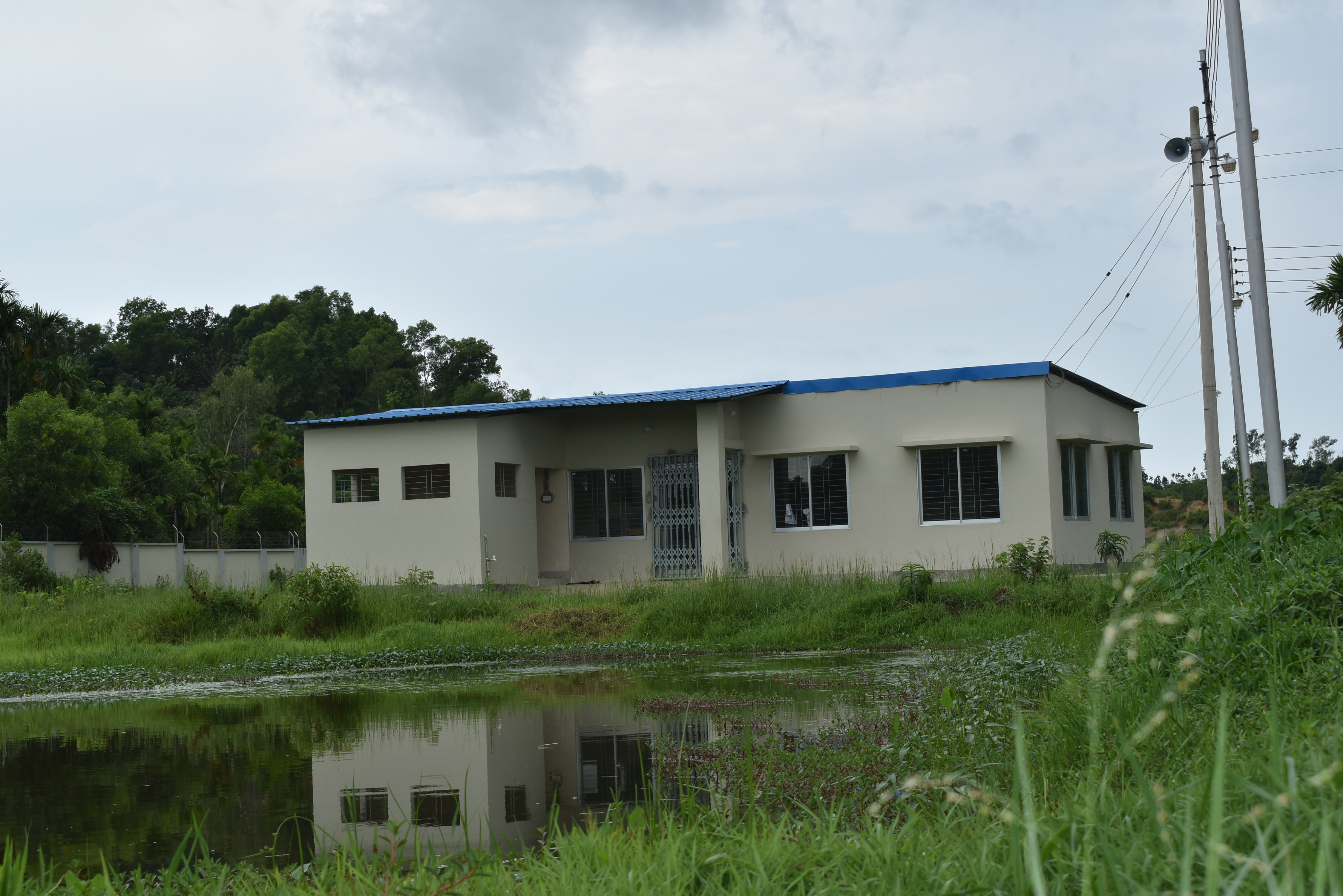 Snapped by Shouvick Chakma Tanza of CoxMC 6th Batch